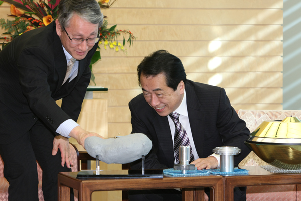 Jun'ichirō Kawaguchi, Professor of the Department of Space Systems and Astronautics, Institute of Space and Astronautical Science, talked with Naoto Kan, Prime Minister, at the Prime Minister's Official Residence in Chiyoda Ward, Tōkyō Metropolis on December 9, 2010.